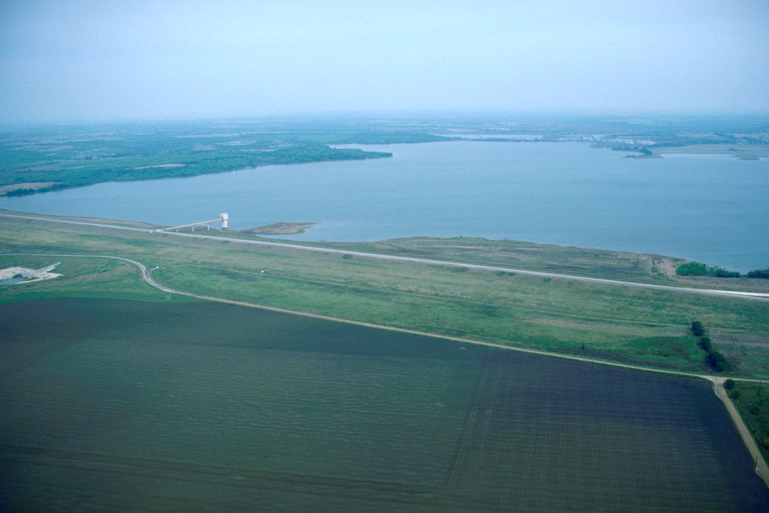 Aerial view of Aquilla Lake and Dam on the Aquilla and Hackberry Creeks in Hill County, Texas, USA. Coordinates: 31°53′54.9″N 97°12′8.94″W / 31.898583°N 97.2024833°W